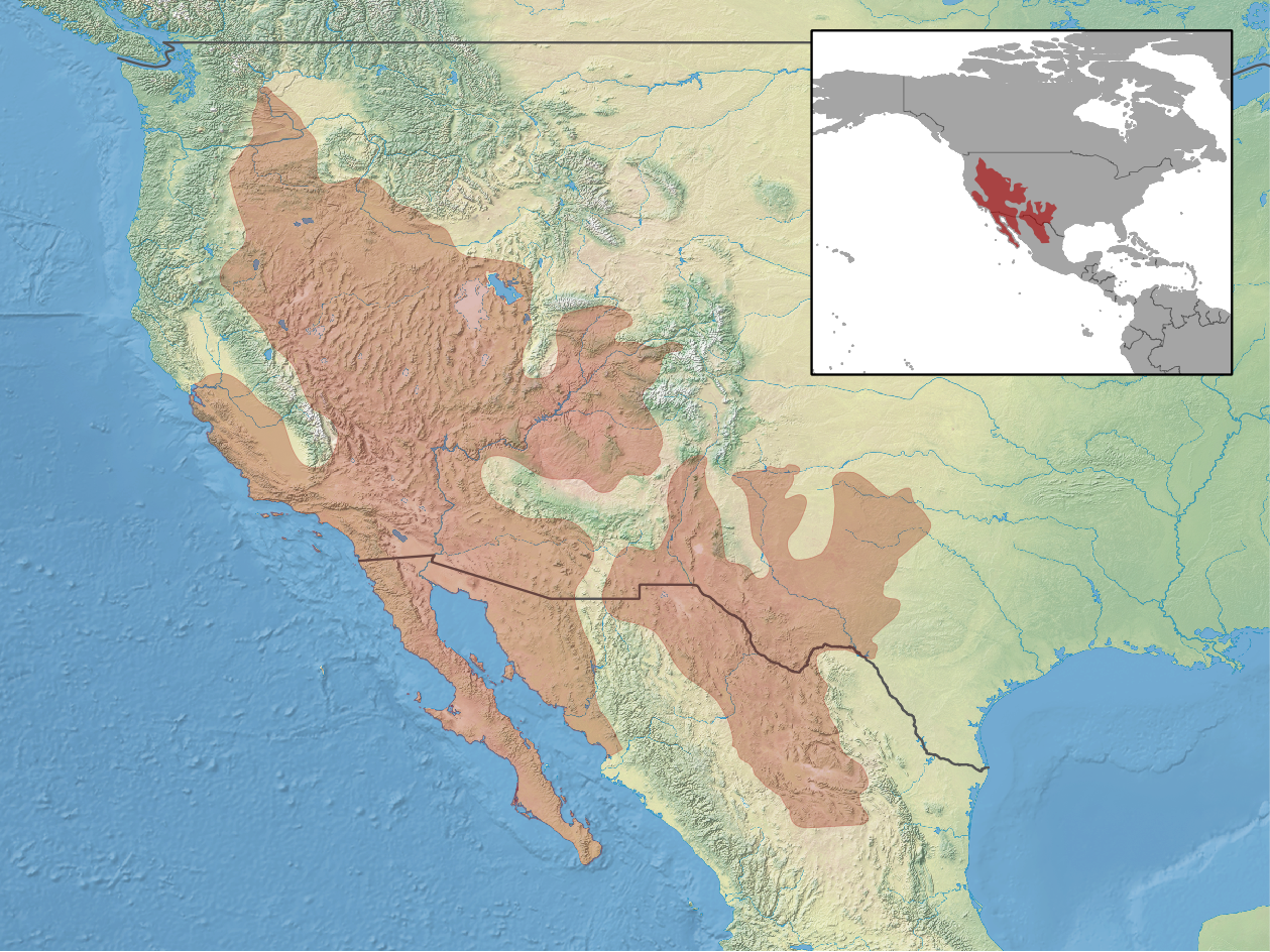 geographic distribution of Uta stansburiana